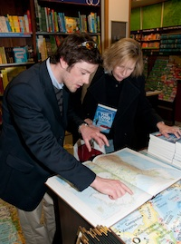 Photo from book launch